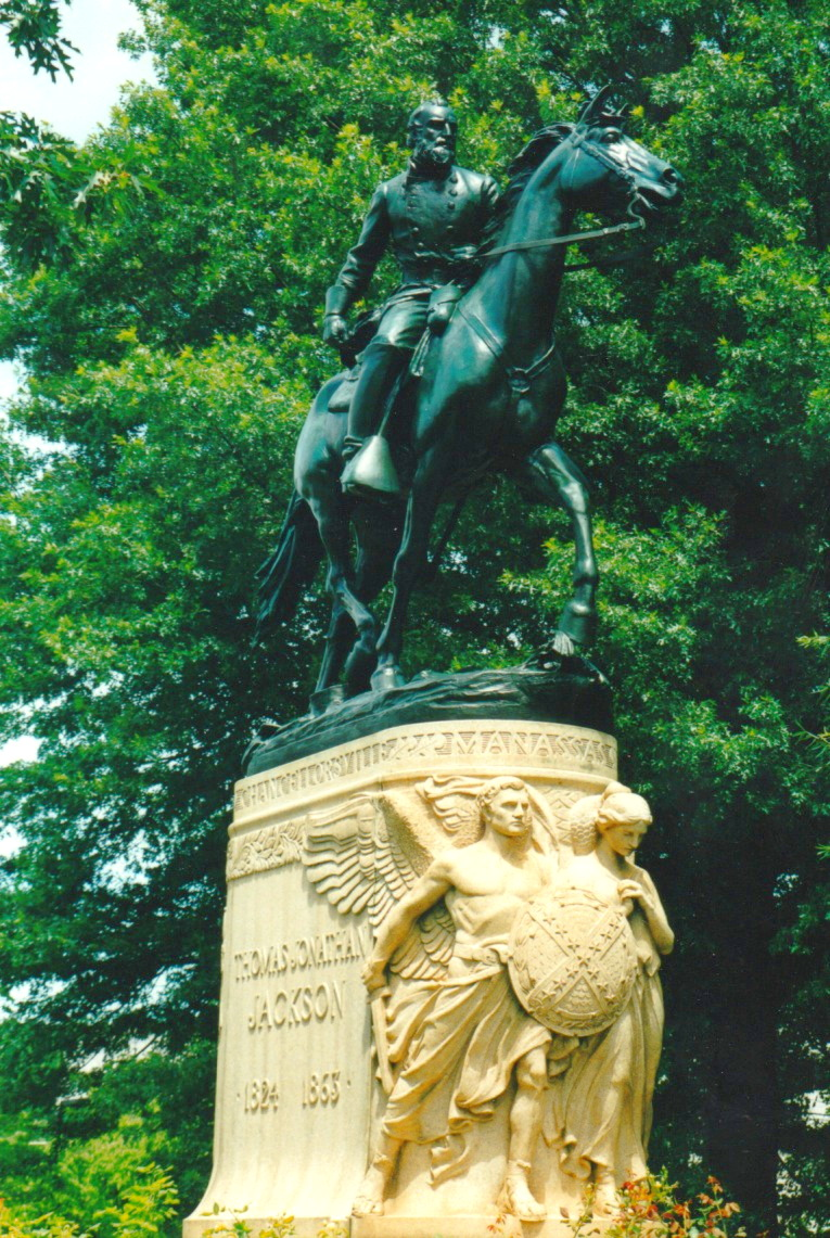 Stonewall Jackson, Charlottesville VA, USA, 1921, Charles Keck sc.